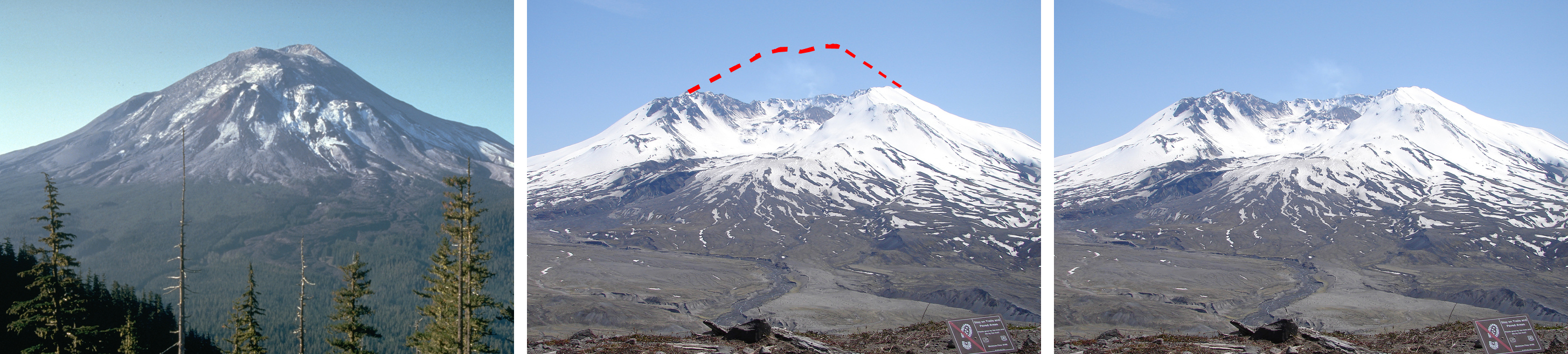 Left: Mount Saint Helens from Johnson Ridge, State of Washington, United-States, one day before the devastating eruption; Middle: dotted line indicate what disappeared in the eruption; Right: Mountain after eruption